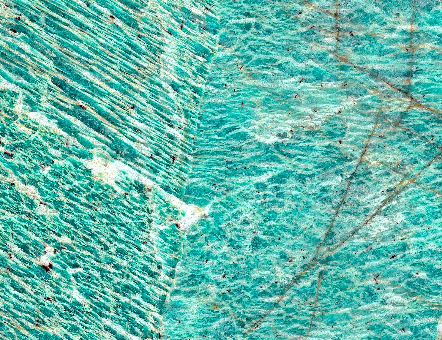 Amazonite with albite from Kola Peninsula, Russia